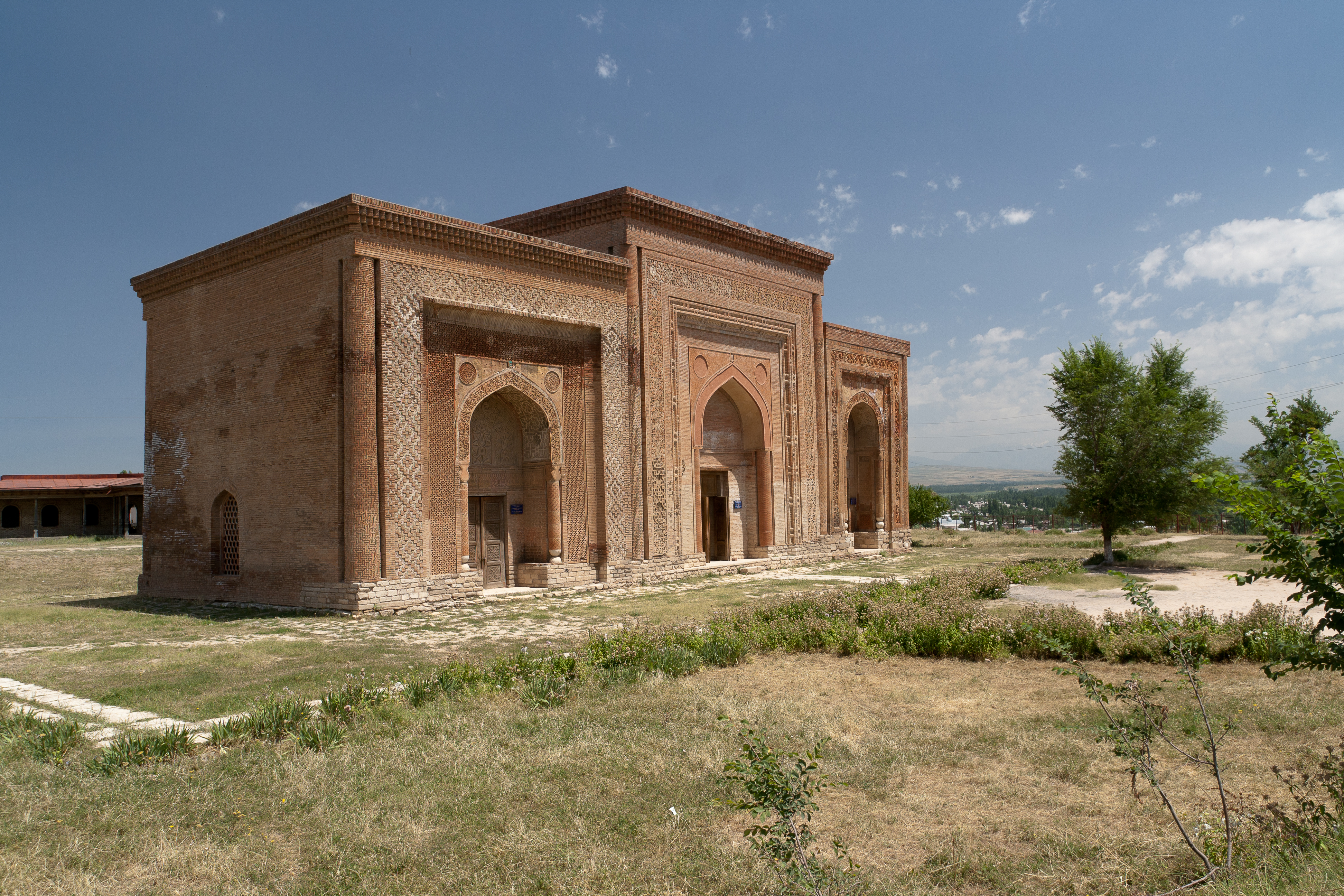 Karakhanid mausoleum in Uzgen/Kyrgyzstan